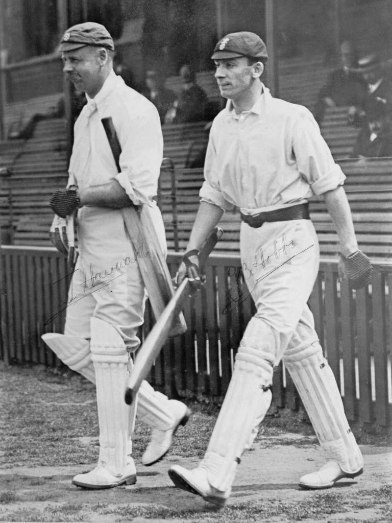 A rare image of the Surrey batsmen Jack Hobbs (right) walking out to bat with his mentor Tom Hayward during the County Championship match between Surrey and Warwickshire at the Kennington Oval in London, 2nd May 1910.